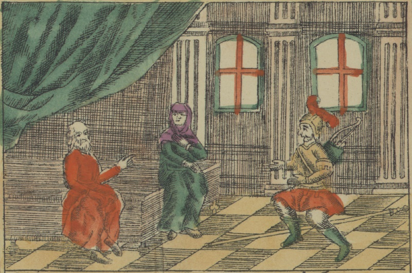 Ilya Muromets with parents